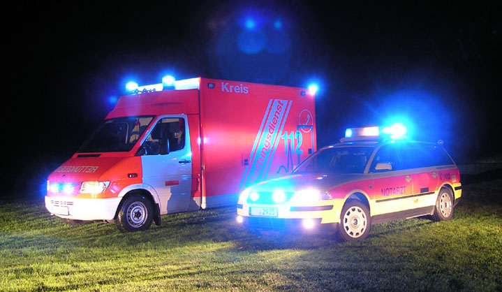 An Ambulance (Rettungswagen) and the car of an emergency physician (Notarzteinsatzfahrzeug) from the German district Gütersloh, having switched on their blue flashlights.